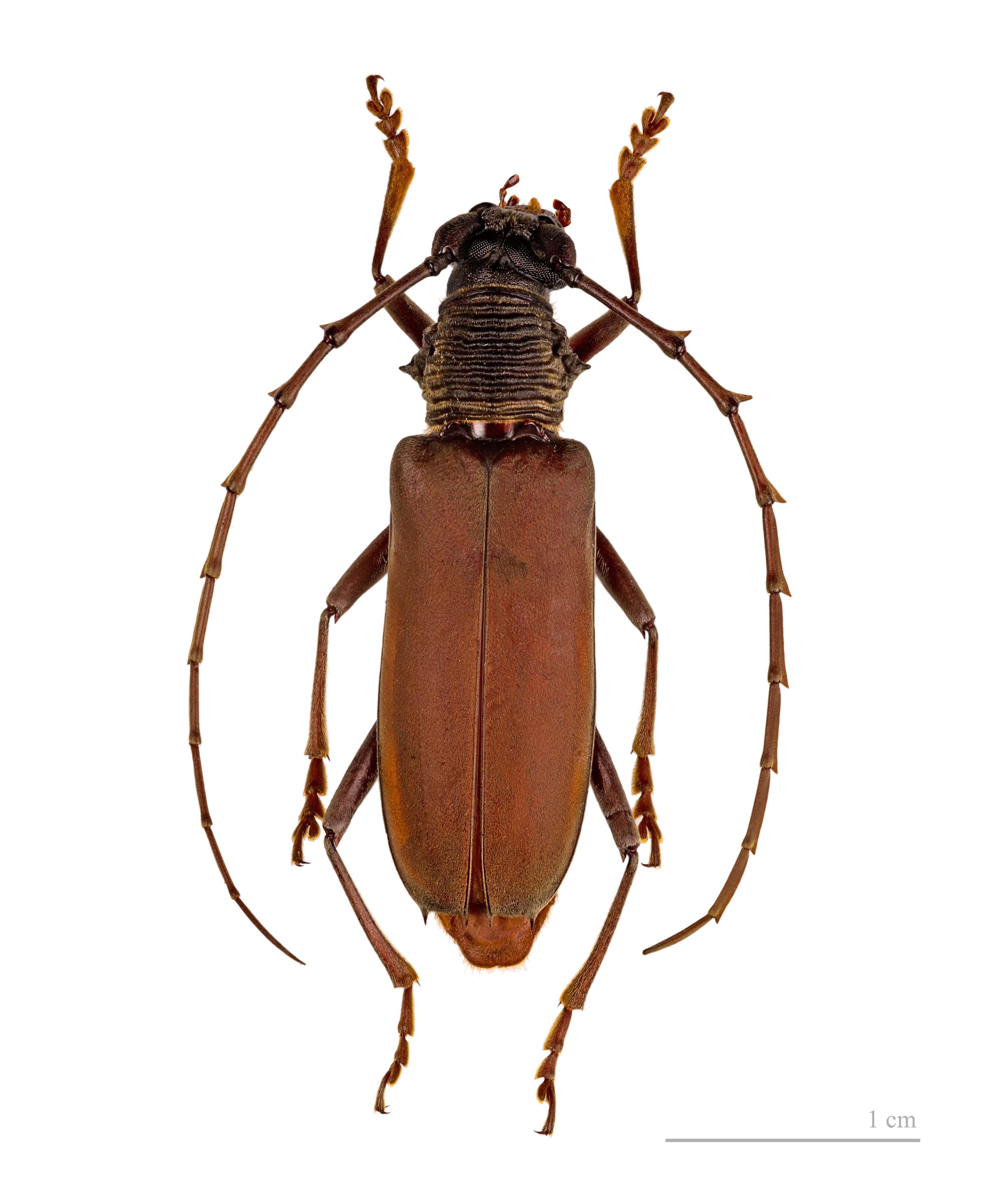 ♀ - Dorsal side Locality : Route de Kaw, Carbet Orstom, French Guiana.